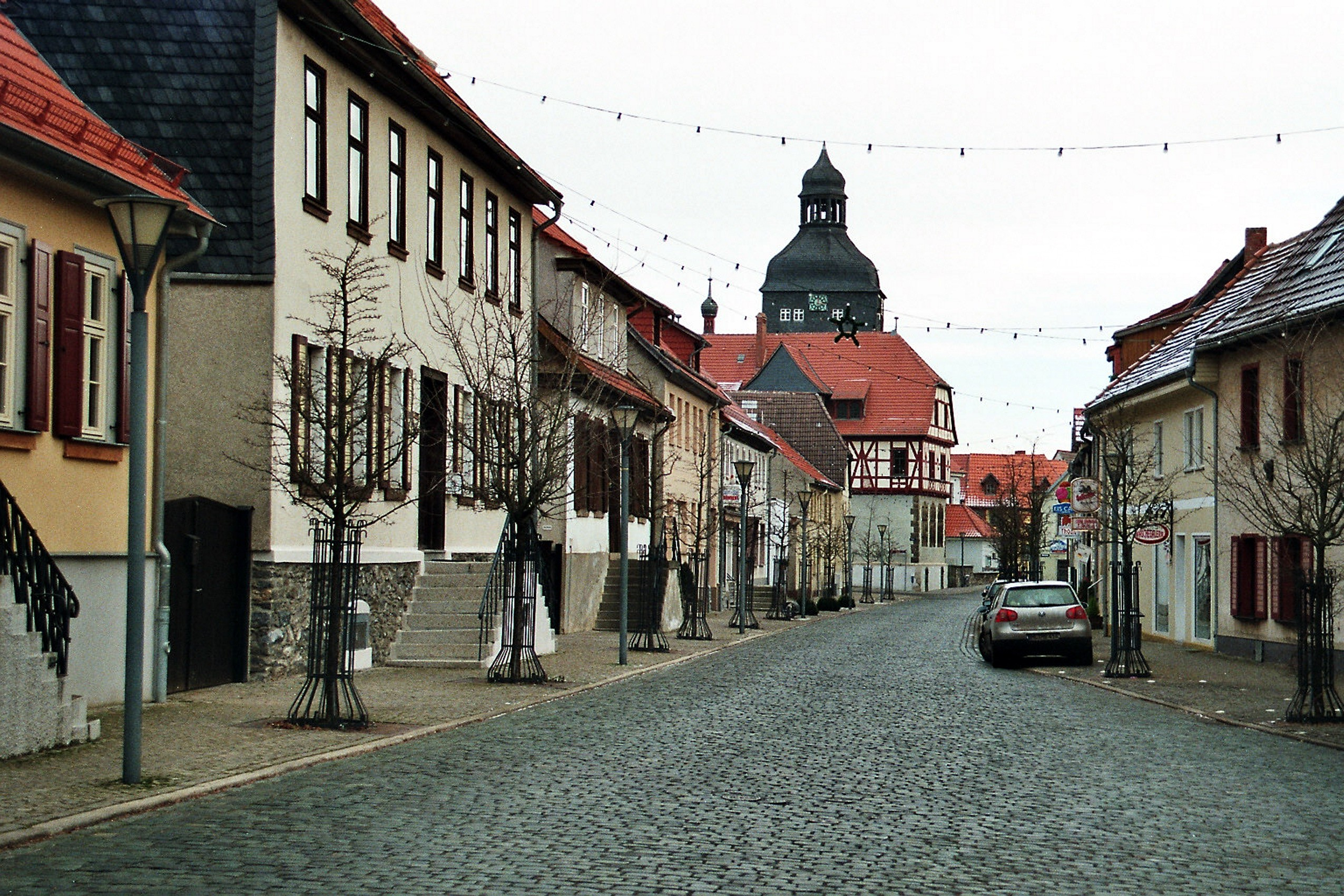 Harzgerode, the Oberstraße